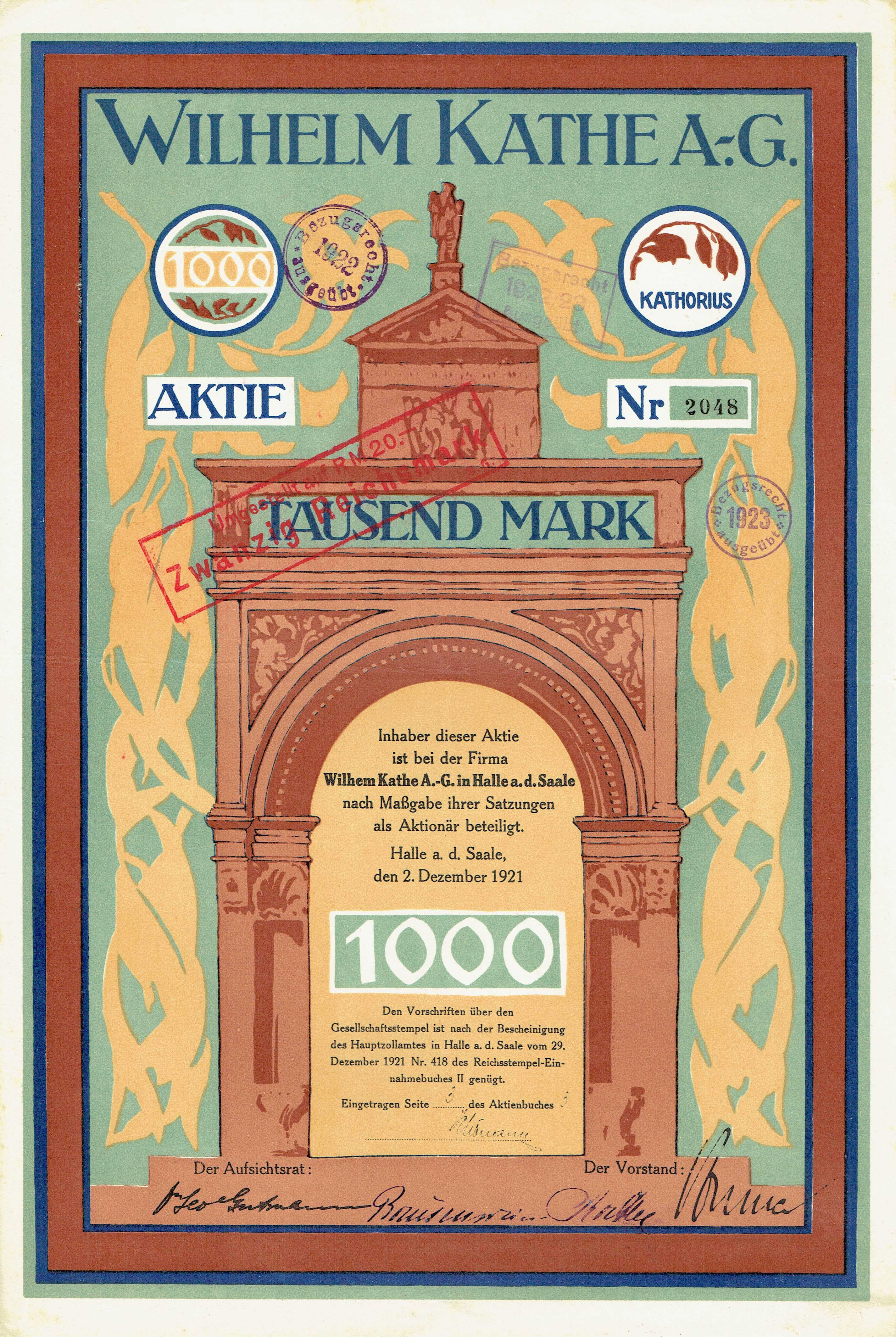 Share of the Wilhelm Kathe AG, issued 2. December 1921